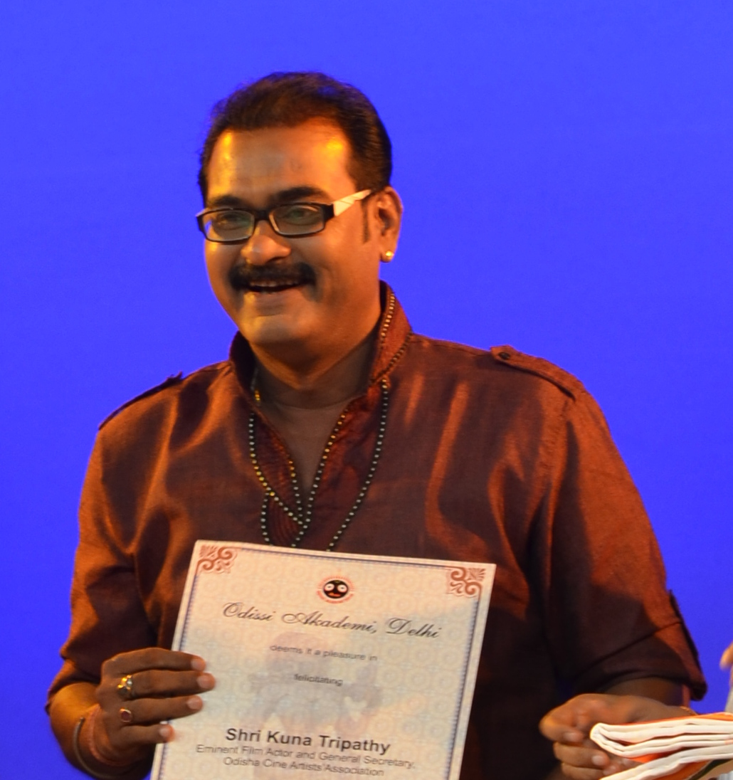 Kuna Tripathy is an Odia film actor from the Indian state of Odisha. Photographed during an Odissi dance event at Rabindra Bhaban, Bhubaneswar, ଓଡ଼ିଆ: କୁନା ତ୍ରିପାଠୀ ଜଣେ ଓଡ଼ିଆ ଅଭିନେତା ।